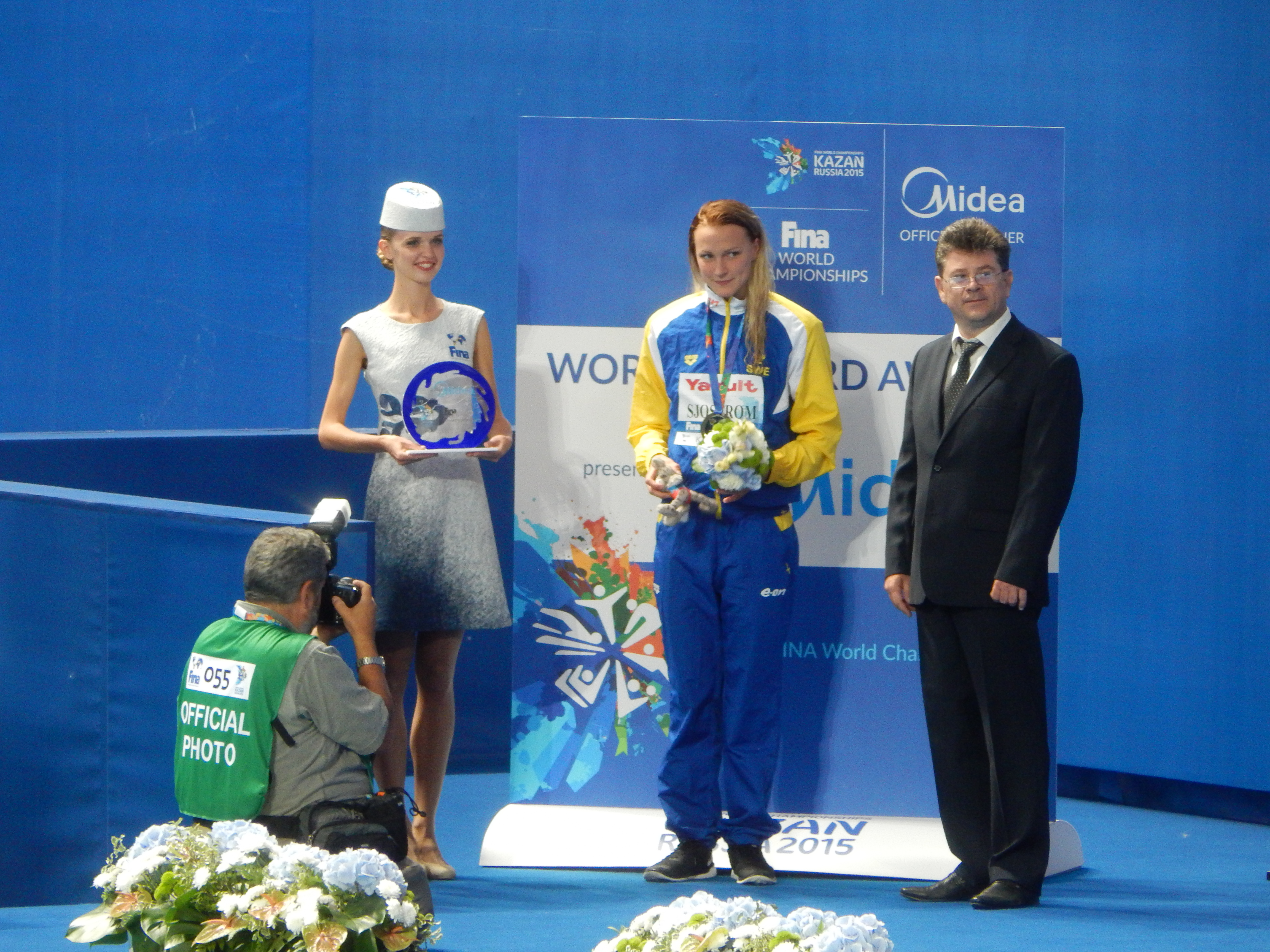 Sarah Sjöström. World Record Award ceremony during the 2015 World Championships in Kazan.